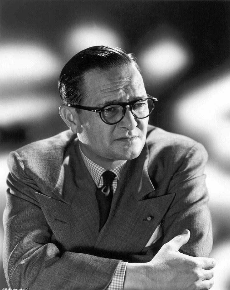 cinematographer Gregg Toland - publicity still for the film The Bishop's Wife (1947) (original image cropped : see source)